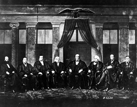 First photograph of the U.S. Supreme Court, by Mathew Brady, 1869